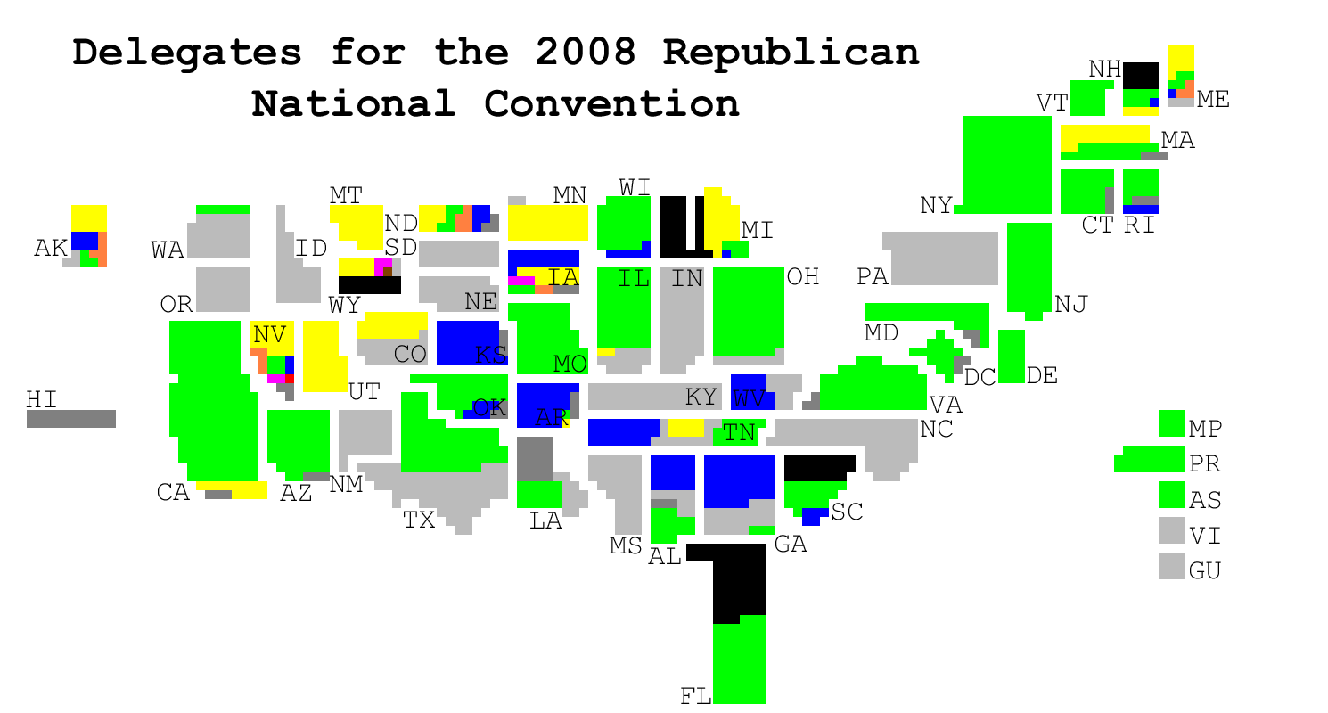 Pledged Republican delegates so far. Yellow=Romney, Blue=Huckabee, Green=McCain, Orange=Paul, Magenta=Fred Thompson, Brown=Hunter, Red=Giuliani, Grey=Uncommitted, Black=Stripped Delegates